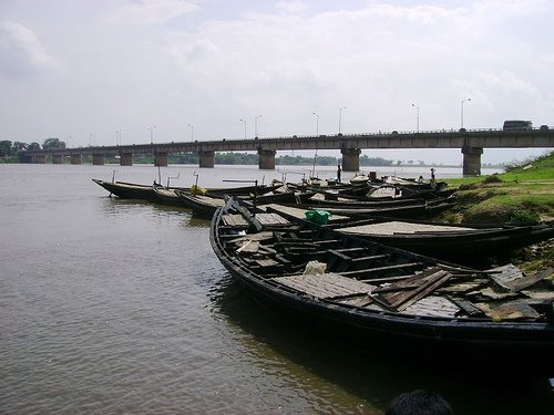 "Damodar" is the major river in Burdwan district(West Bengal India).The bridge over this river is called "Krishak(farmer)Setu(bridge)"